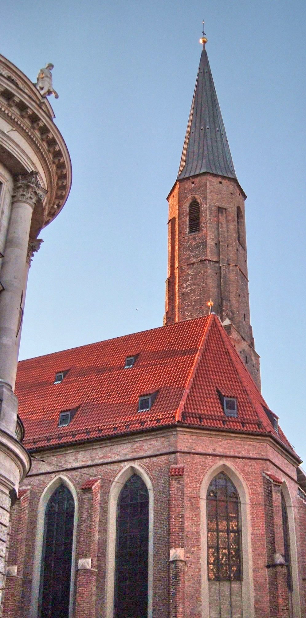 Salvatorkirche, Munich, Germany